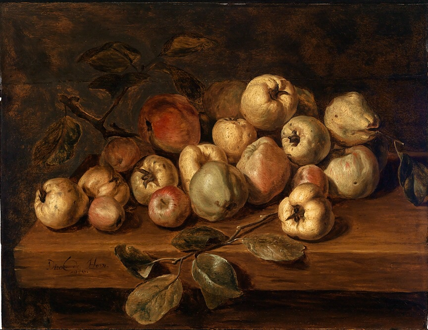 Stilleven met appels